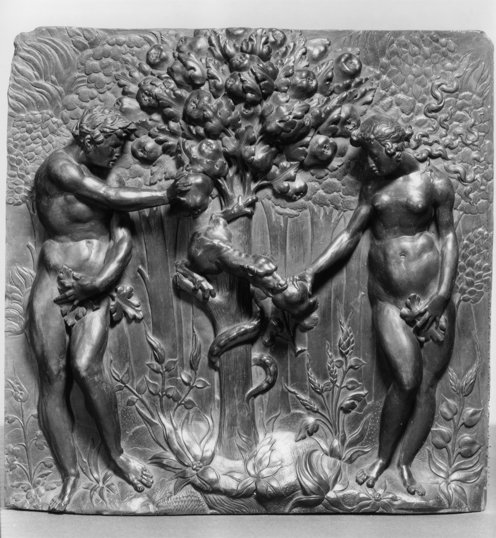 Matteo, a pupil of Avanzi, went to France in 1515.